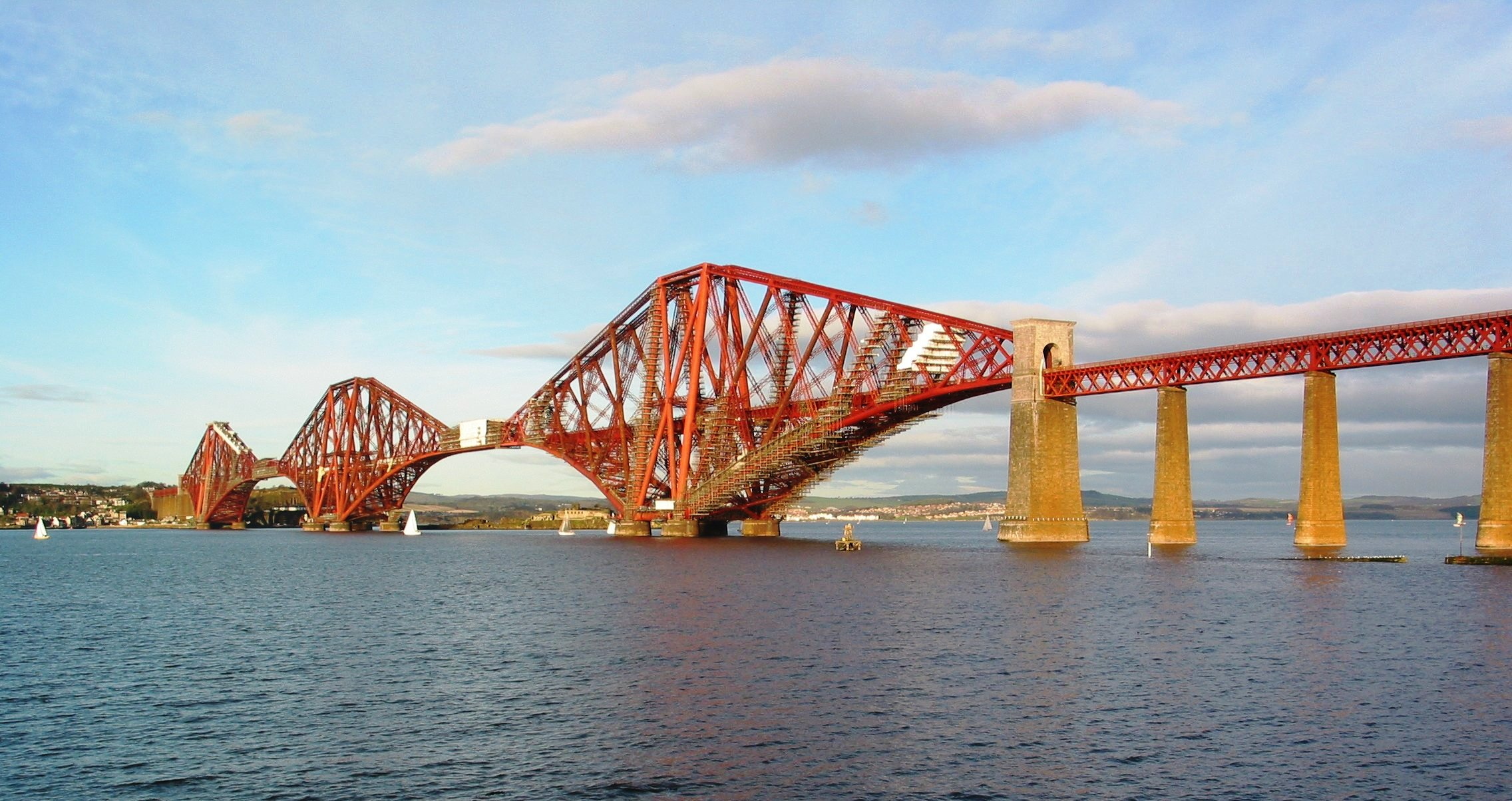 Forth Rail Bridge from South Queensferry